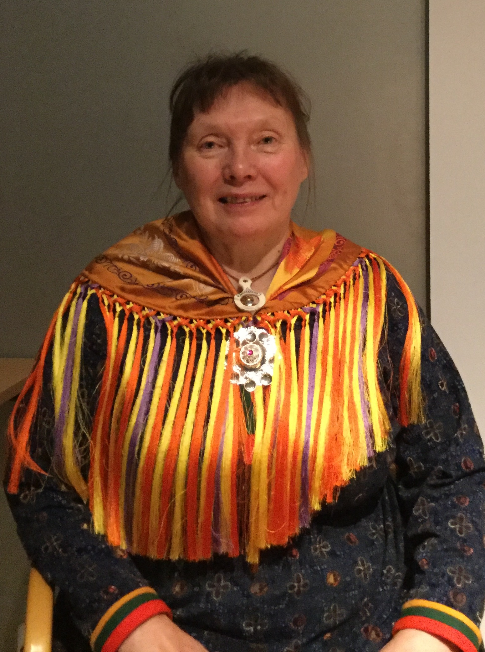 Norwegian sami author Ellen Marie Vars / Elle Márjá Vars; during the Norwegian Sami Parliament literature festival 2016